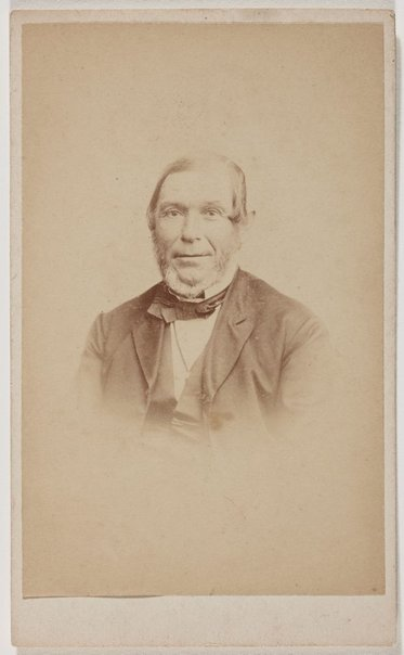 Untitled